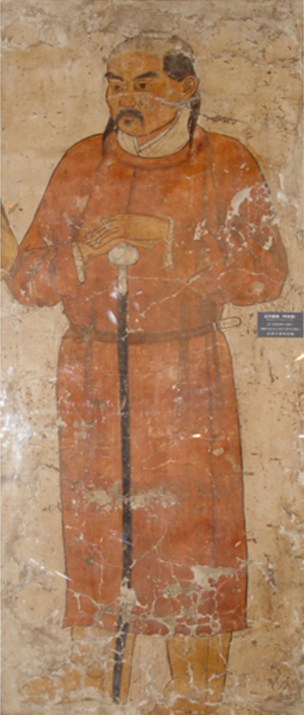 Guard, Fresco, Liao Dynasty, Chifeng Museum Dimension:200X83cm